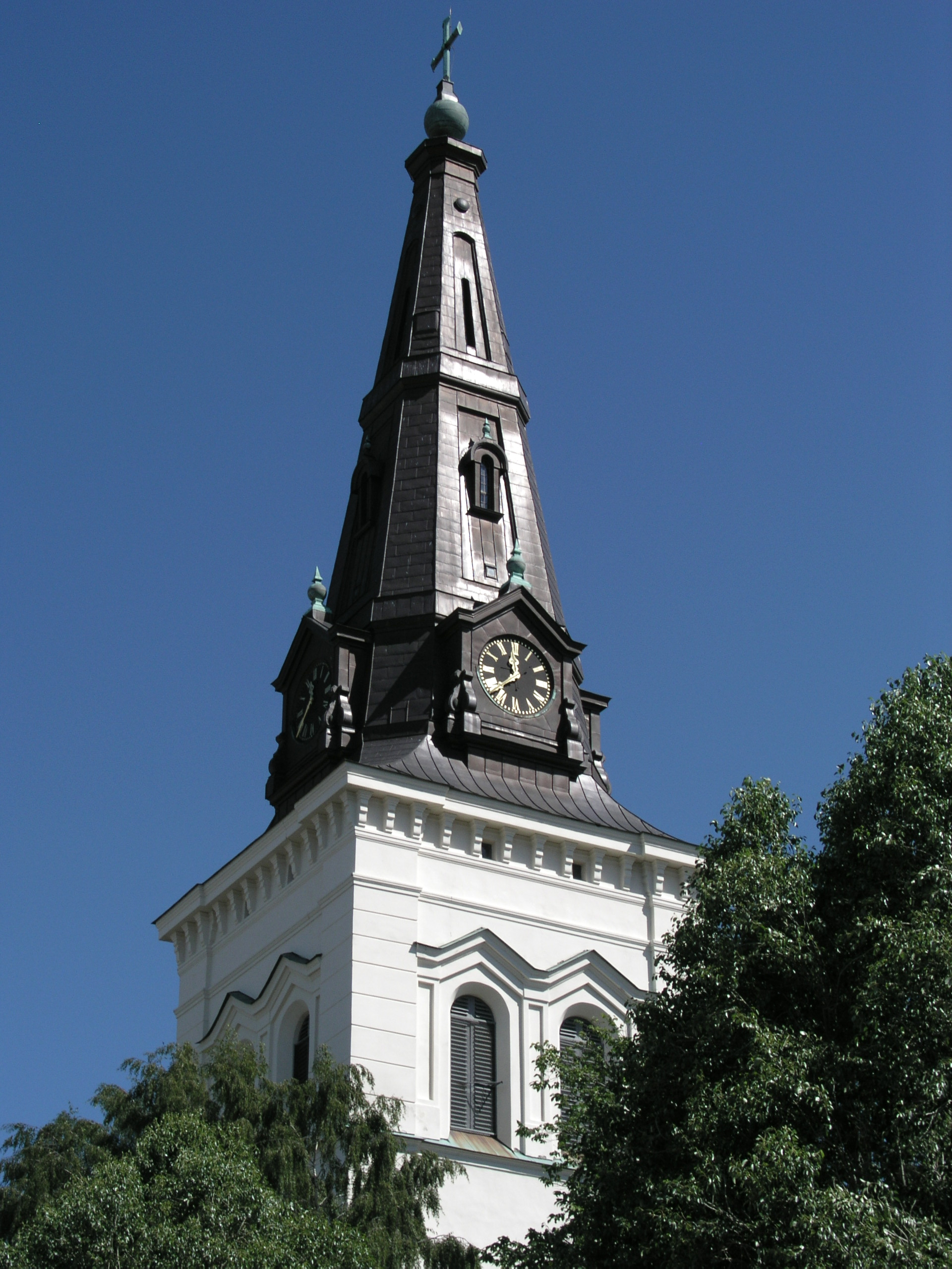 Karlstads domkyrka / Cathedral of Karlstad. Church tower.